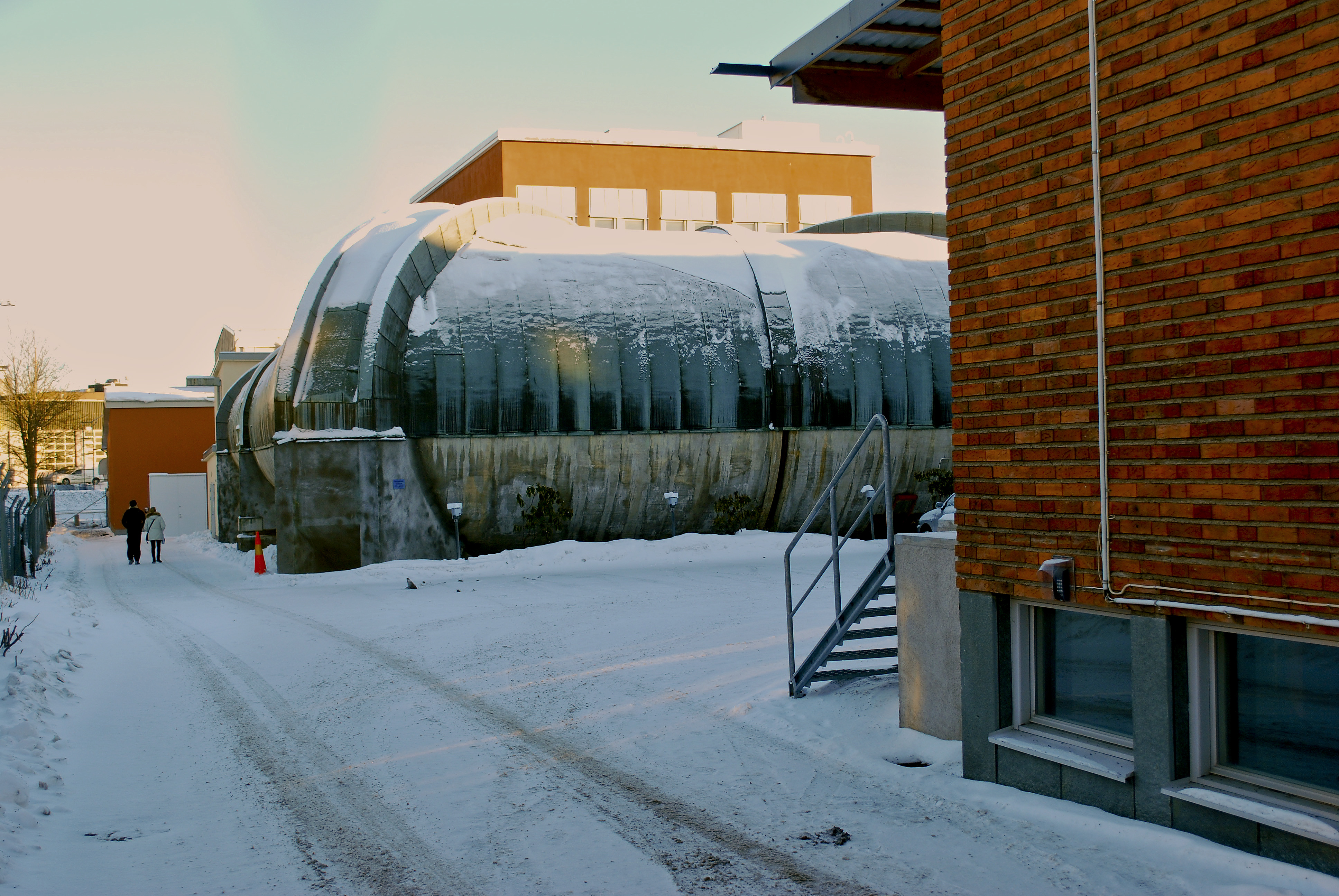 Former FFA building, Ulvsunda industriområde.